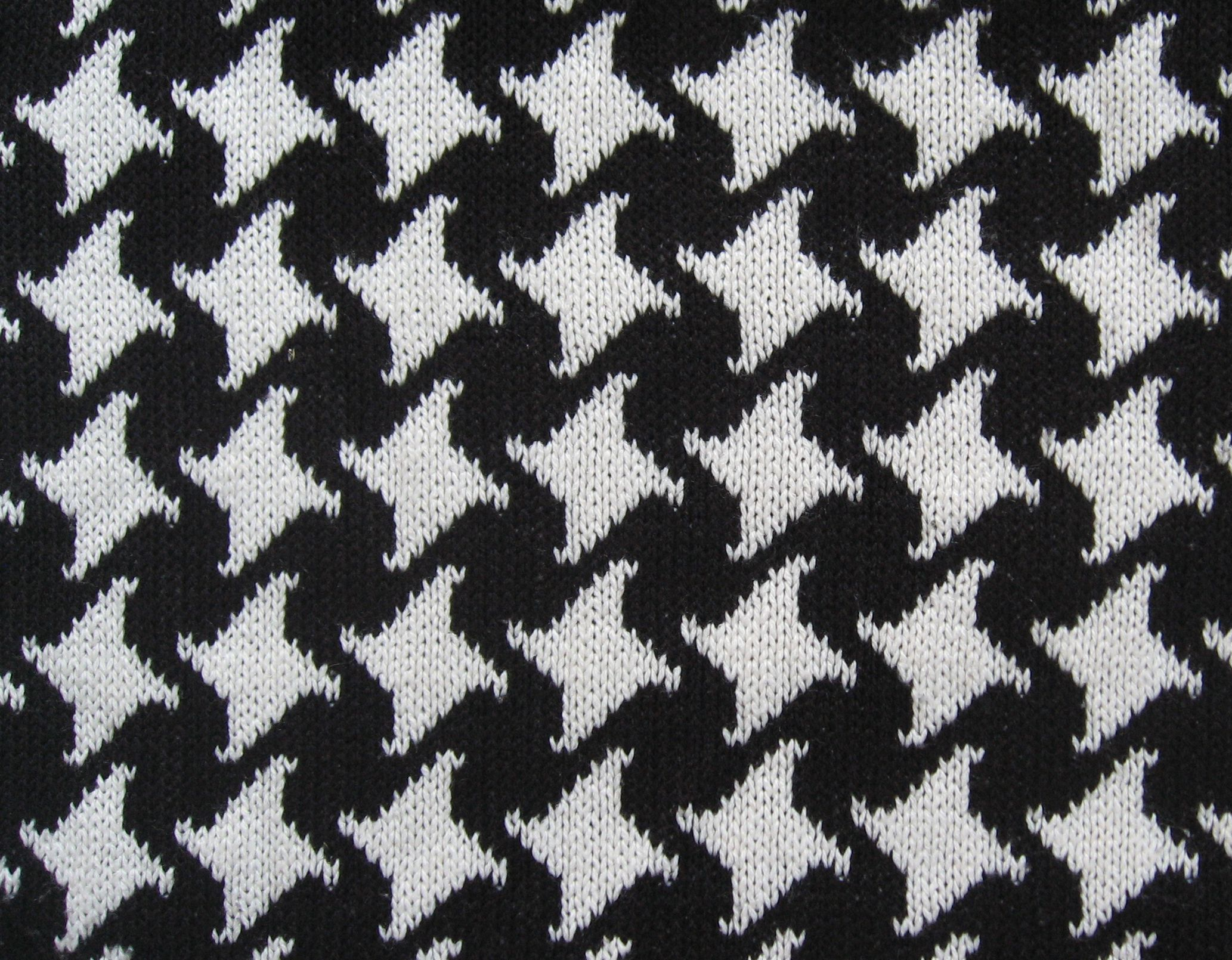 „shepherd's check“? „houndstooth“? (Example for an optical illusion in everyday life: the pattern seems to be tilt to the right.)